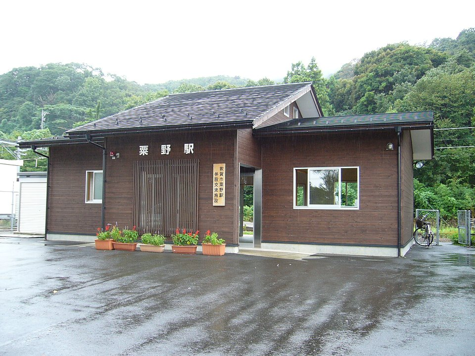 Awano Station building